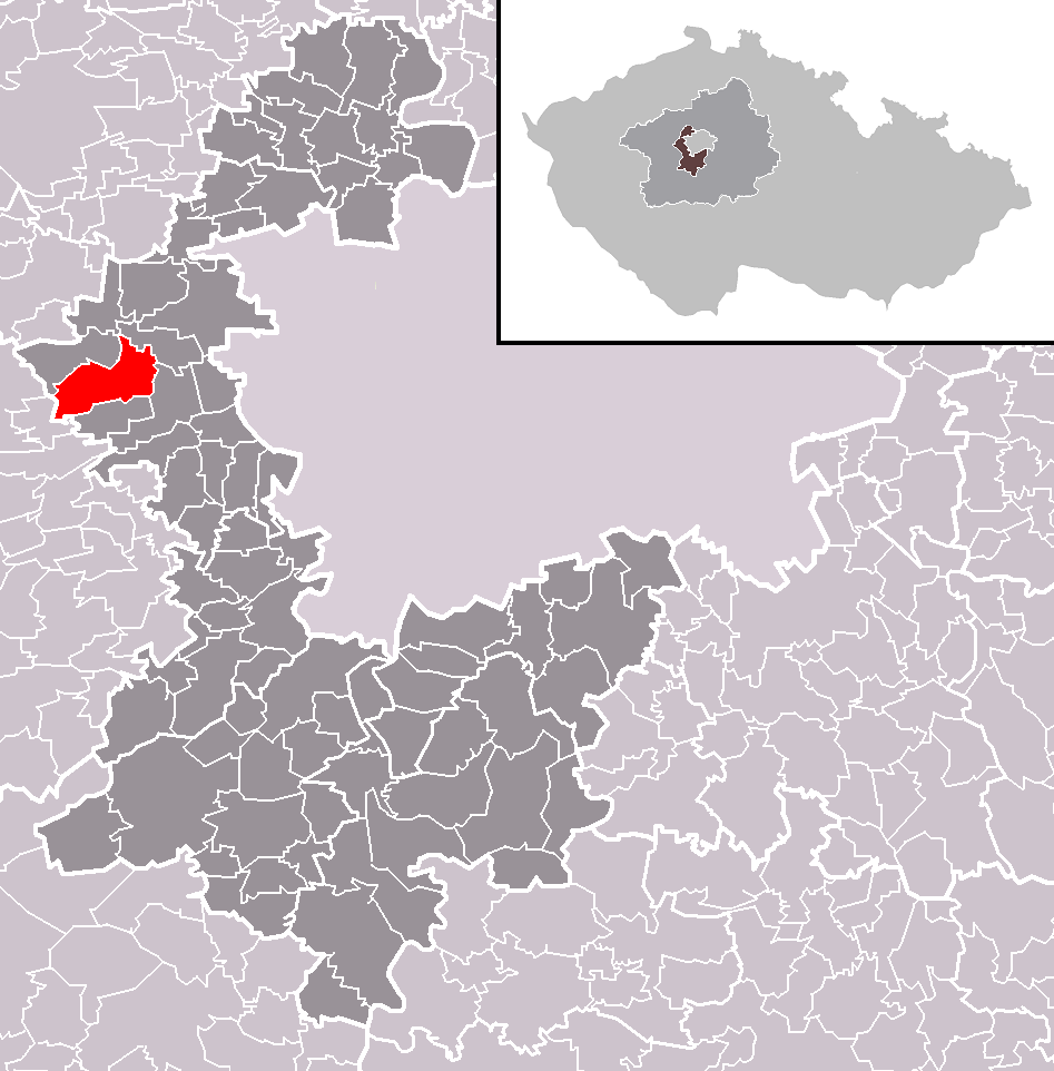 Location of Úhonice municipality within Prague-West District and administrative area of Černošice as a Municipality with Extended Competence.